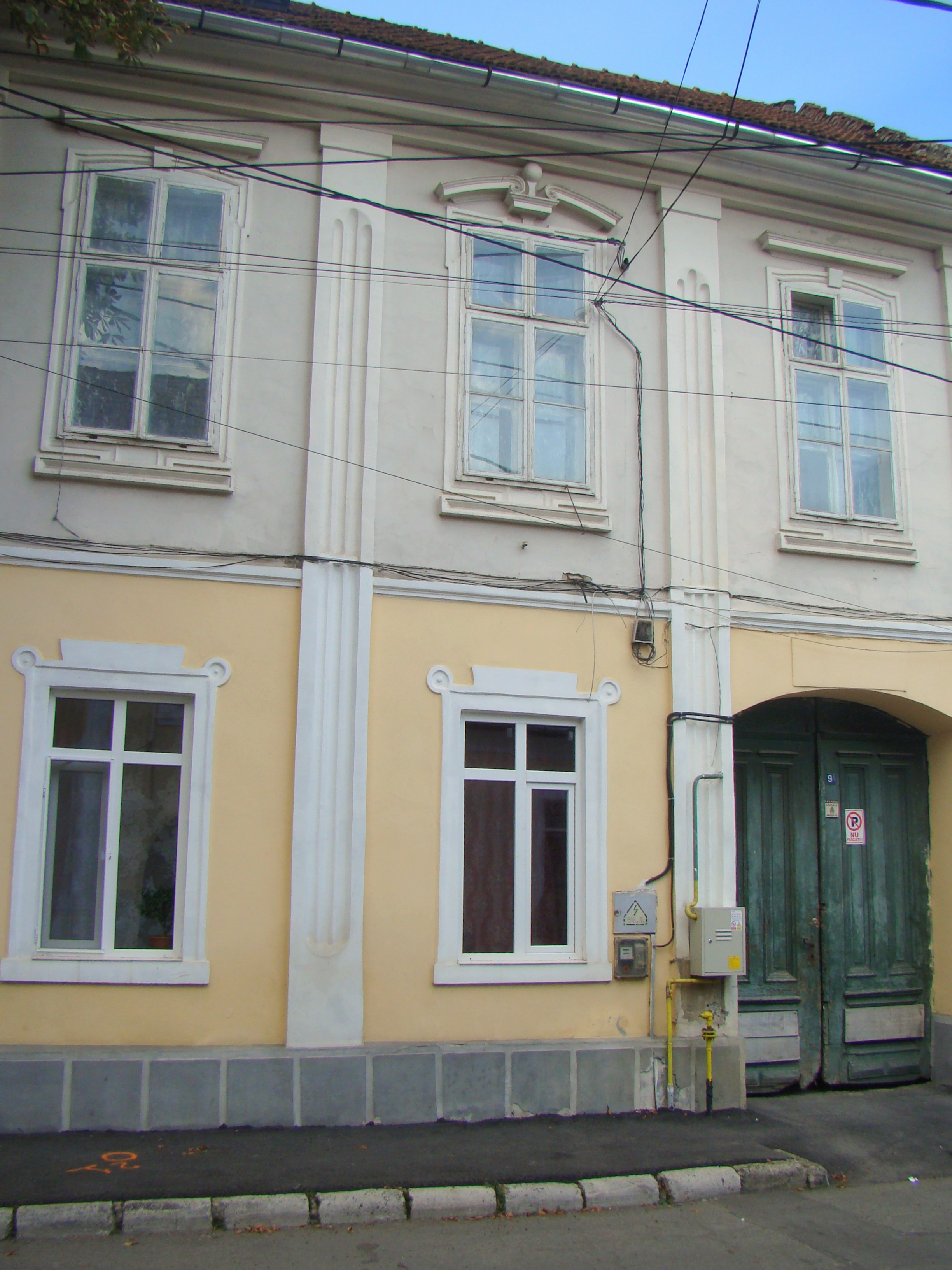 House, historic monument, in Bistrița, Constantin Dobrogeanu-Gherea street 9